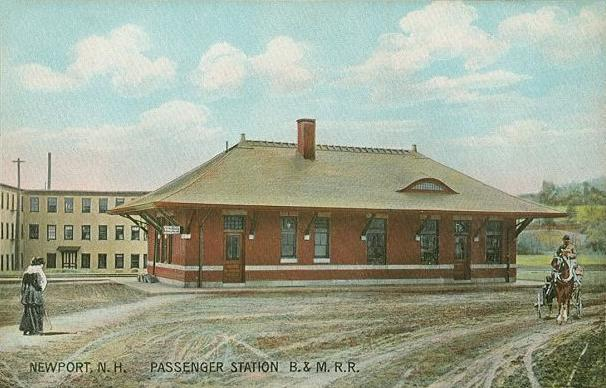 Passenger Station, Boston & Maine Railroad, Newport, New Hampshire